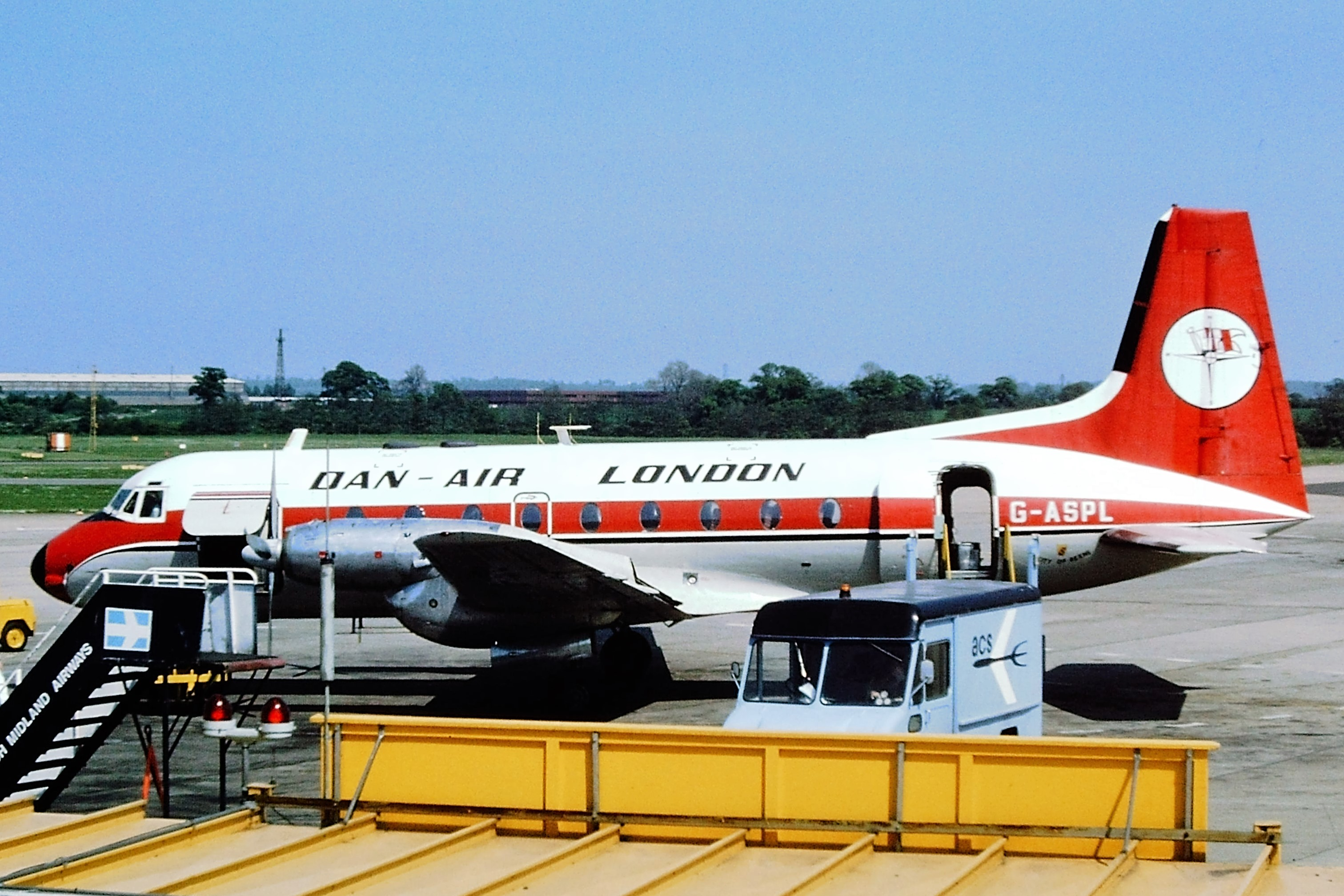 G-ASPL HS748-2A Dan Air Birmingham Airport 27-05-1978